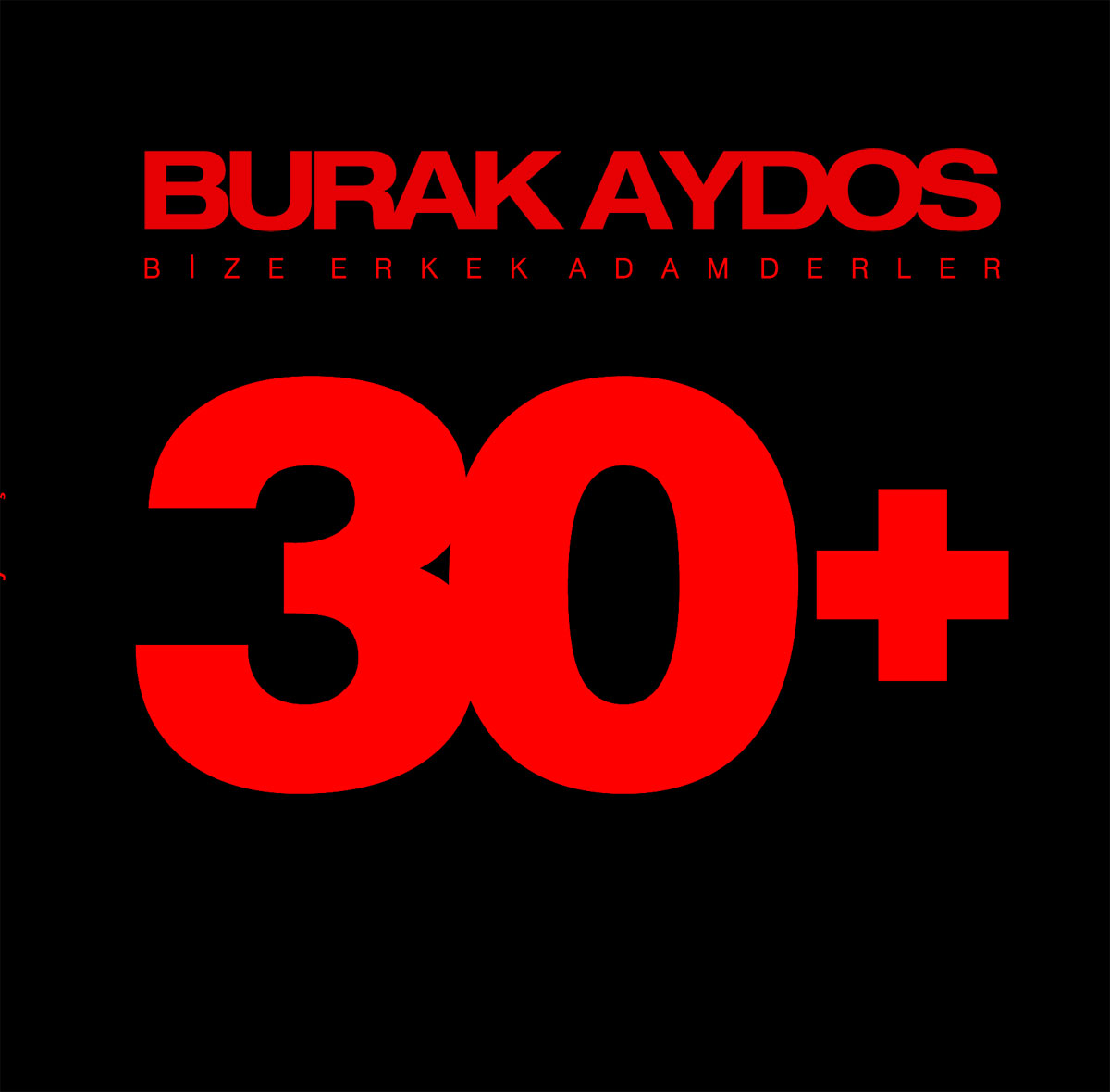 Cover of Burak Aydos album, 30+.